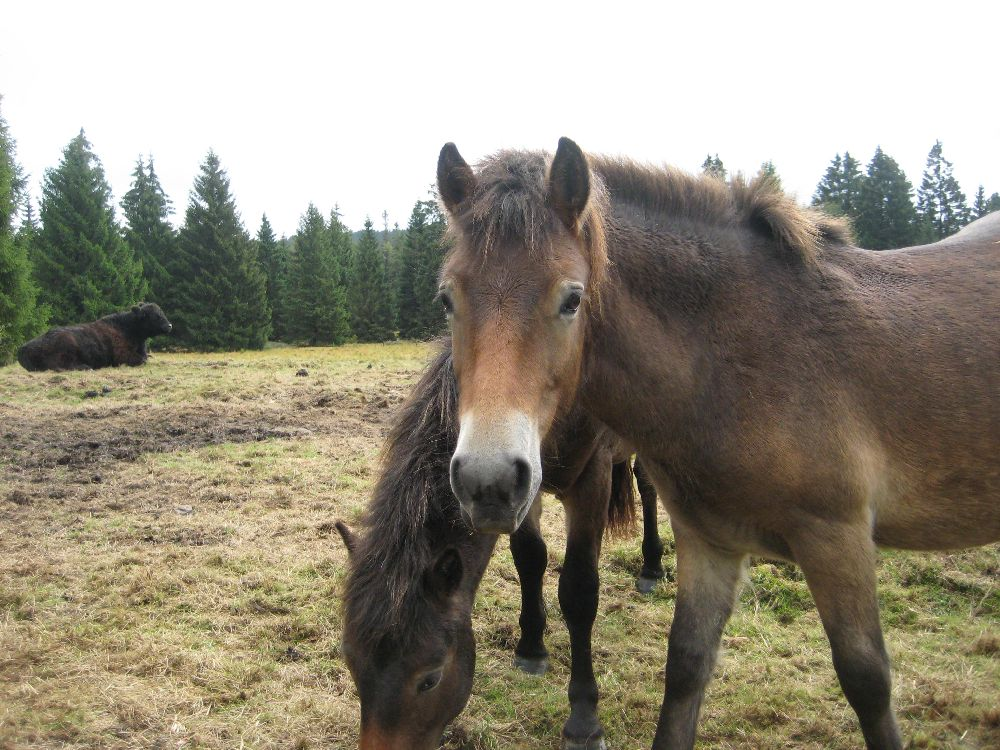 Exmoor pony's en Galloway rund